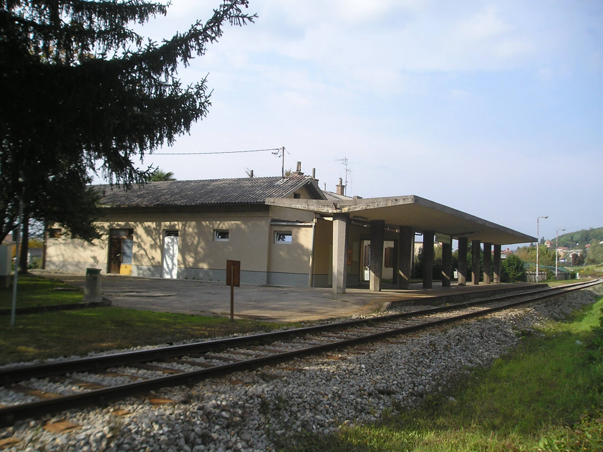 Railway halt in Šempeter pri Gorici, Slovenia